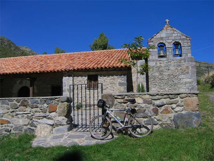 Iglesia de Cardaño